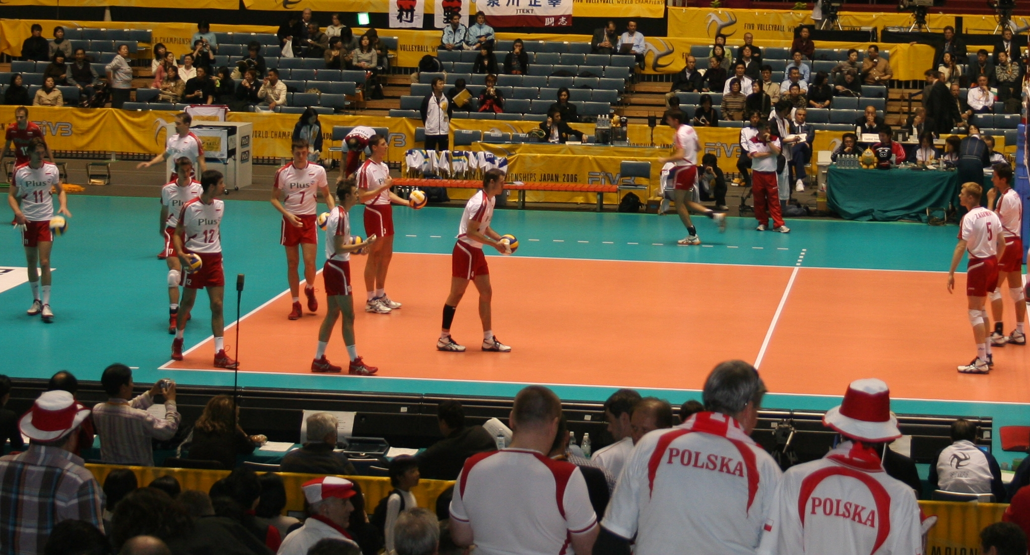 Volleyball World Cup 2006 in Japan. Players from Poland preparing for the semifinal against Bulgaria